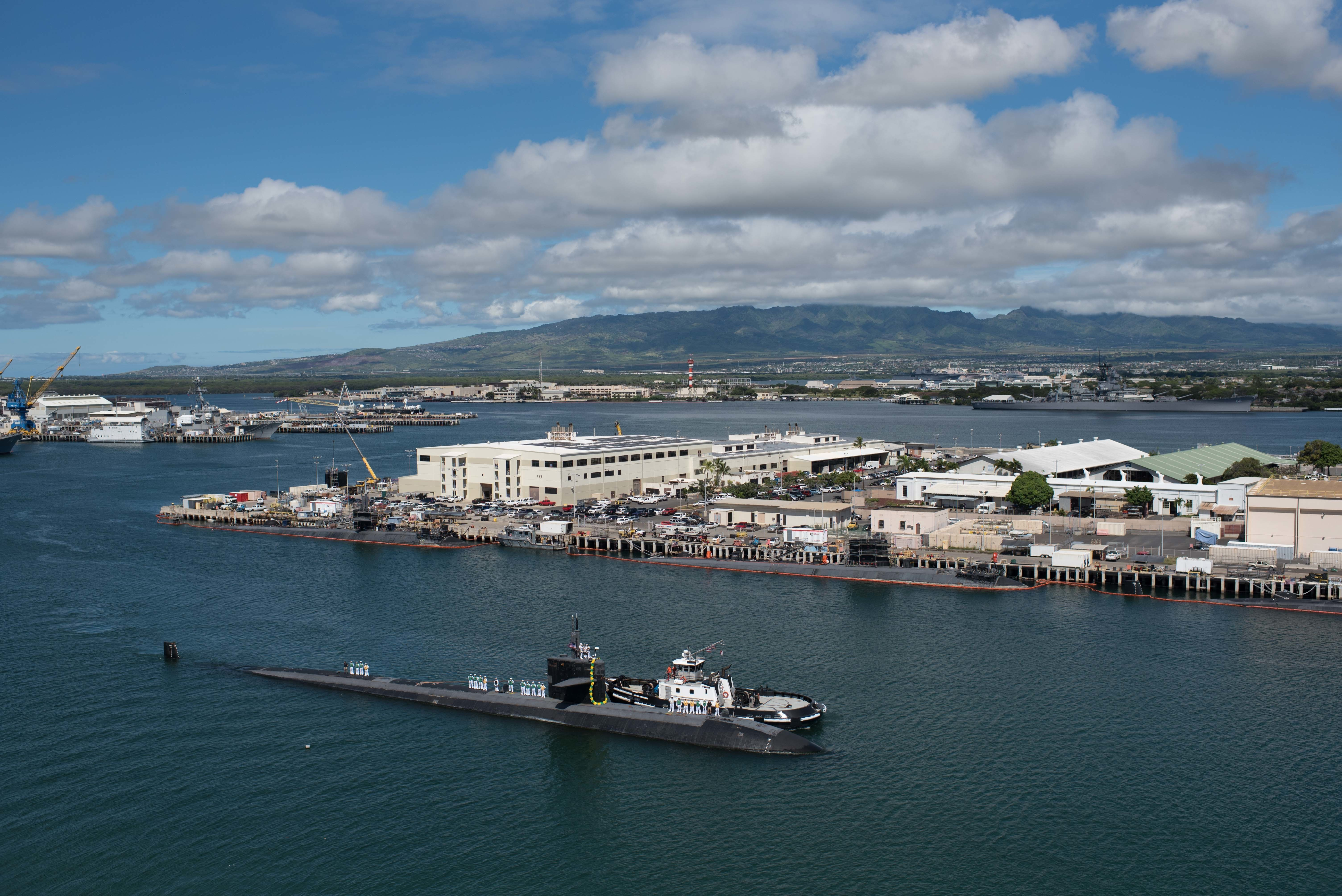 The U.S. Navy attack submarine USS Bremerton (SSN-698) returns to Joint Base Pearl Harbor-Hickam, Hawaii (USA), on 6 April 2018, following a six-month western Pacific deployment. Visible undergoing maintenance at the dock are USS Louisville (SSN-724), left, and USS Cheyenne (SSN-773). The museum battleship USS Missouri (BB-63) and the retired amphibious assault ships USS Tarawa (LHA-1) and USS Peleliu (LHA-5). The guided missile destroyers USS John Paul Jones (DDG-53) and the bow of USS William P. Lawrence (DDG-110) are visible on the left.